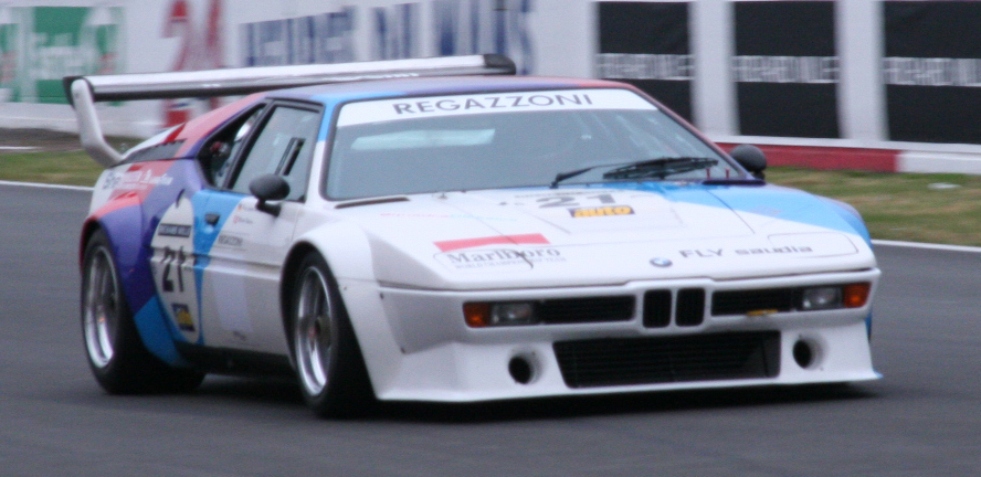 BMW M1 at LeMans Classic 2006